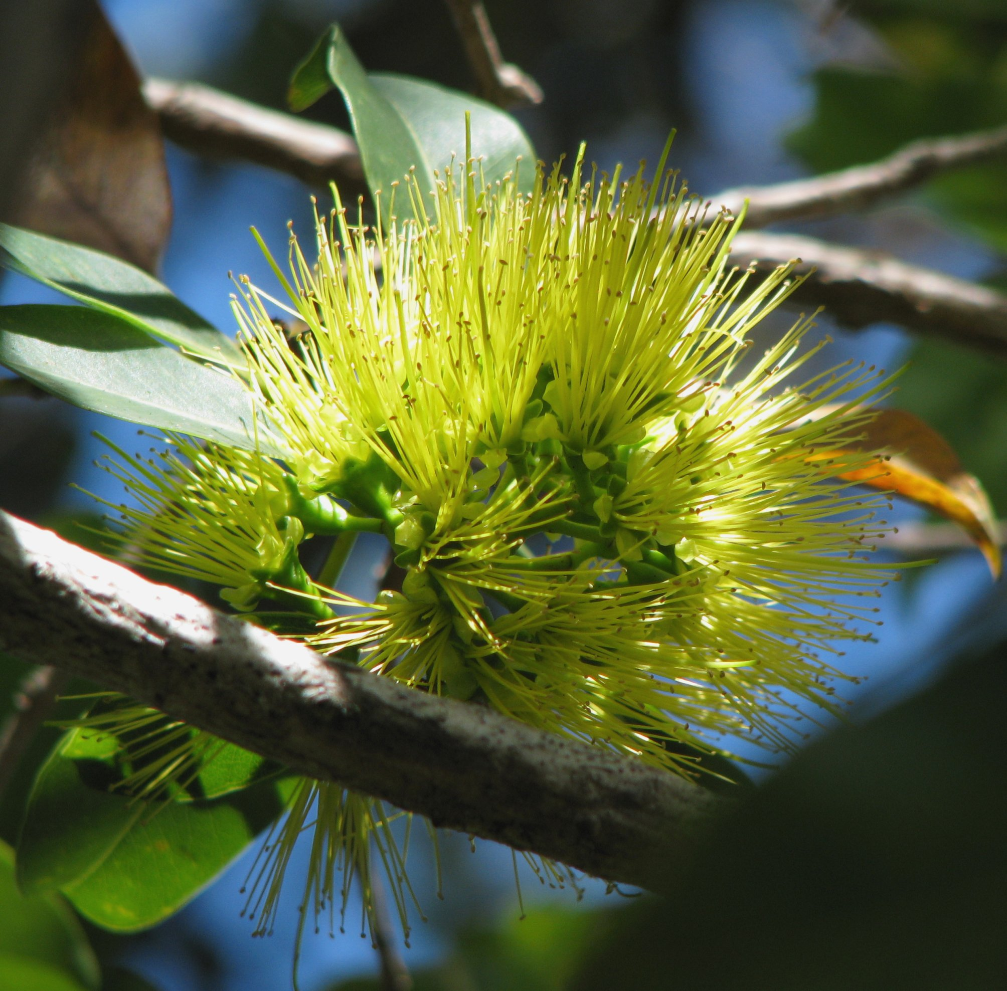 ʻŌhiʻa, ʻŌhiʻa lehua, Lehua Myrtaceae Endemic to the Hawaiian Islands (Oʻahu only) ʻAiea Ridge Trail, Oʻahu NPH00003